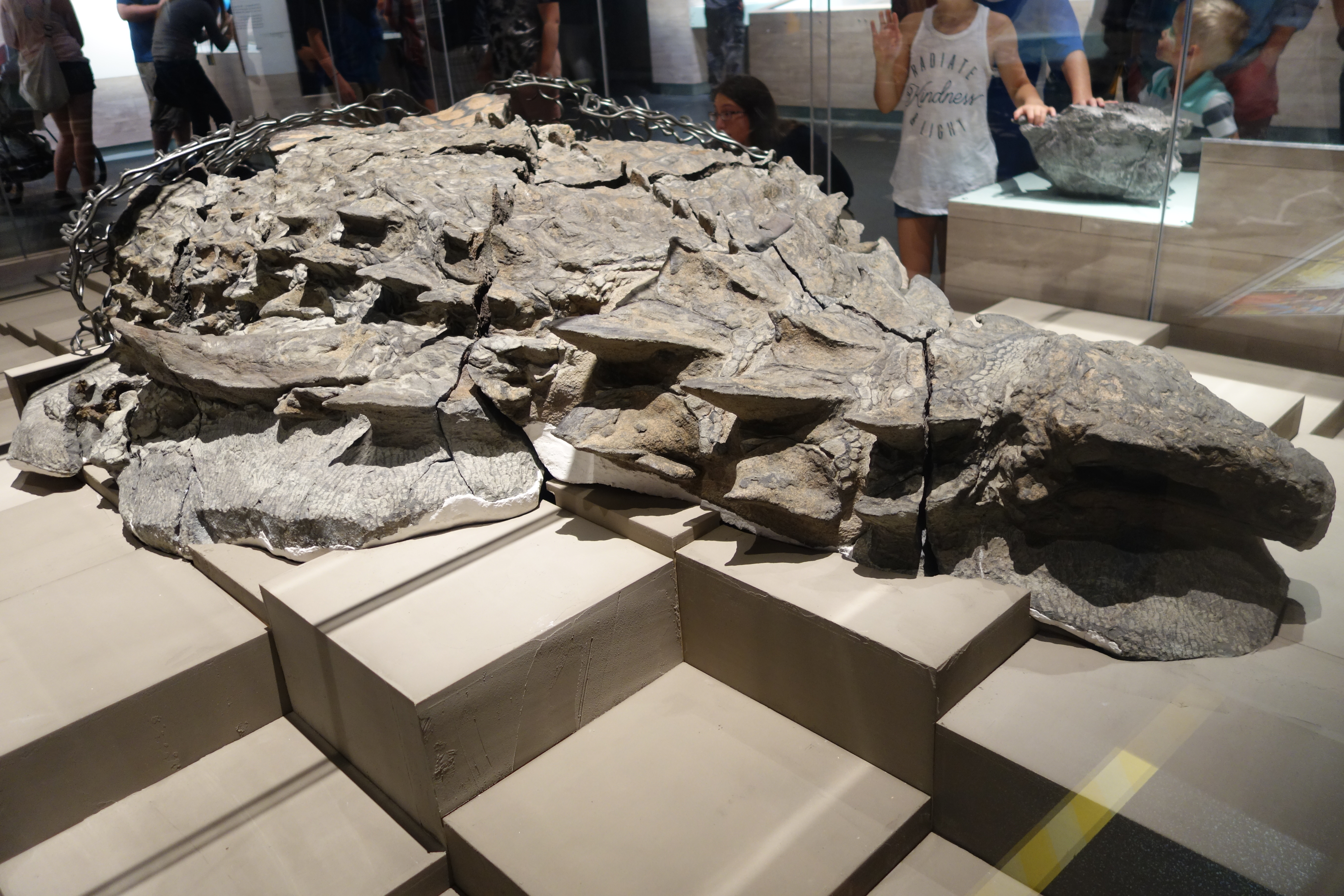 Borealopelta holotype (original), On display at the Royal Tyrrell Museum, Alberta, Canada.